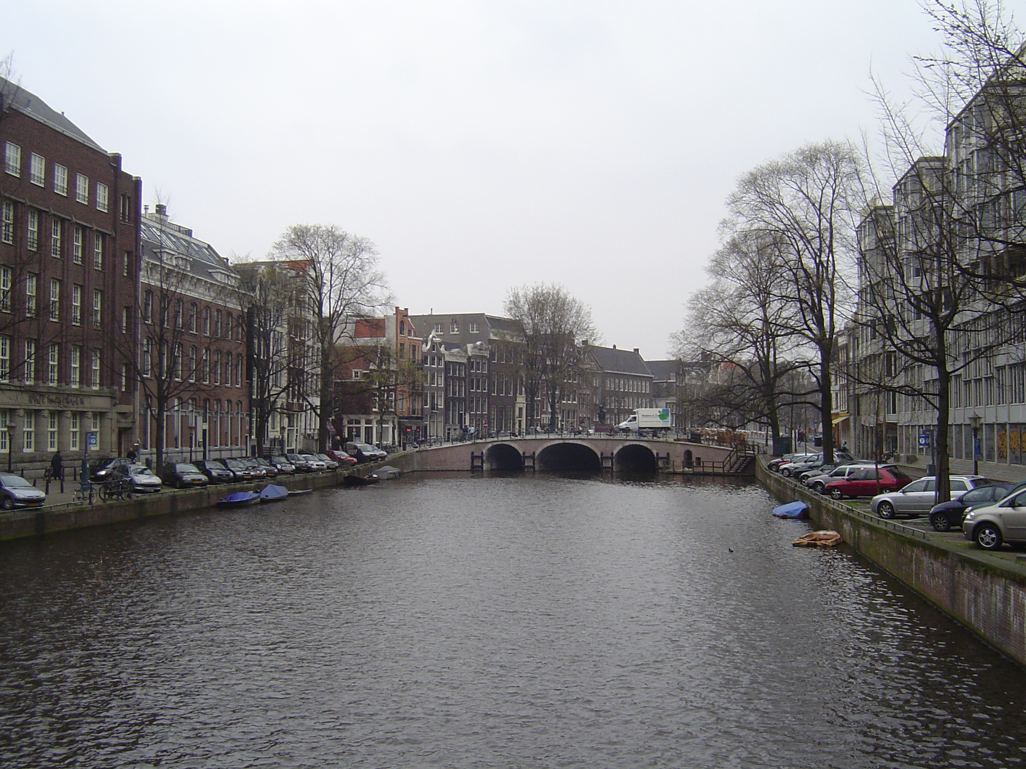 Click here to see where this photo was taken.